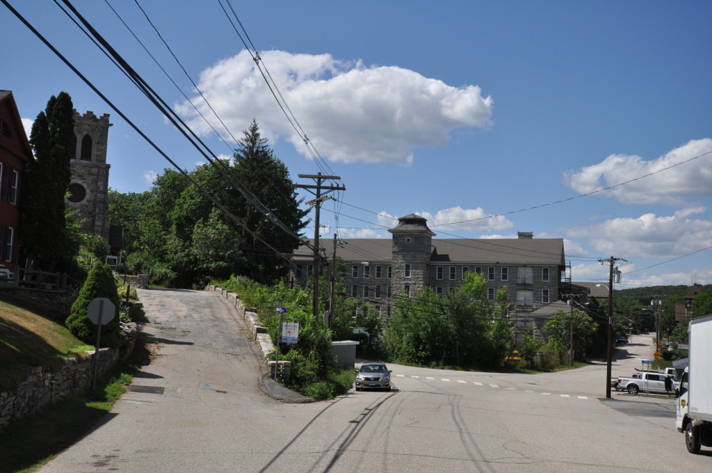 Yantic Woolen Company Mill, Norwich, Connecticut.